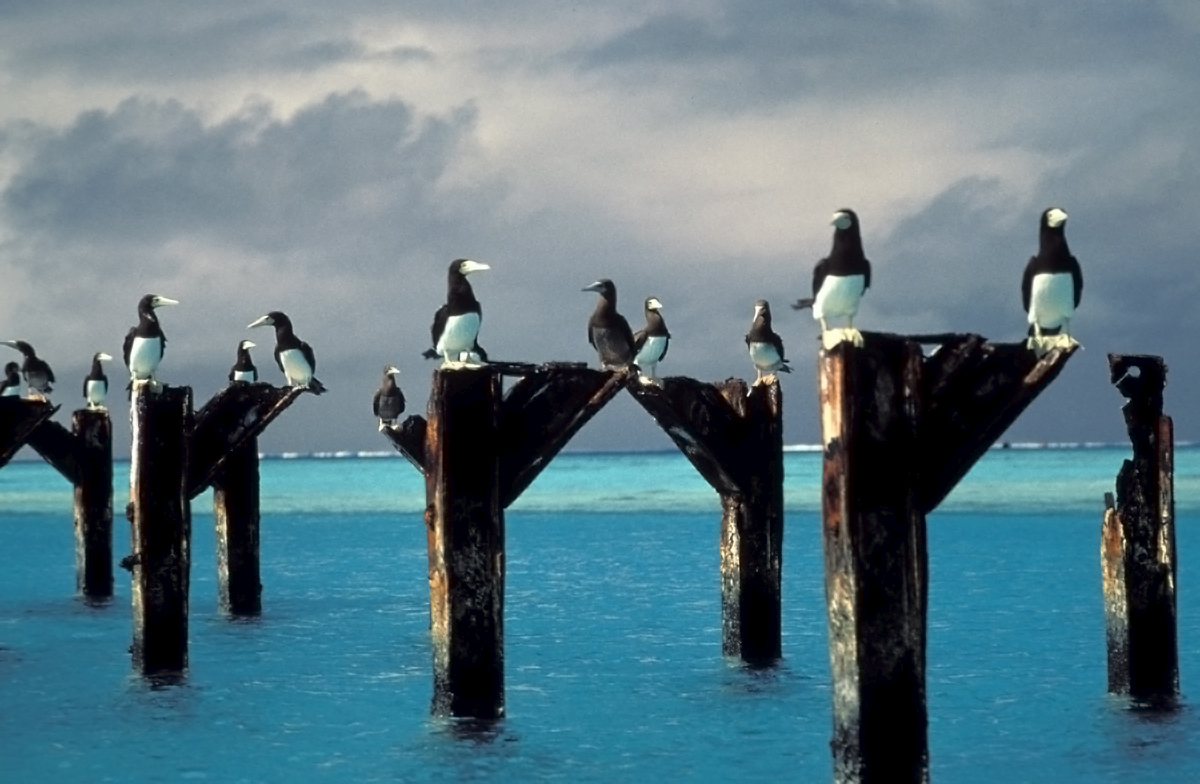 Brown boobies stake out positions atop the posts of an old pier at Johnston Atoll National Wildlife Refuge in the Pacific. (Lindsey Hayes/USFWS)